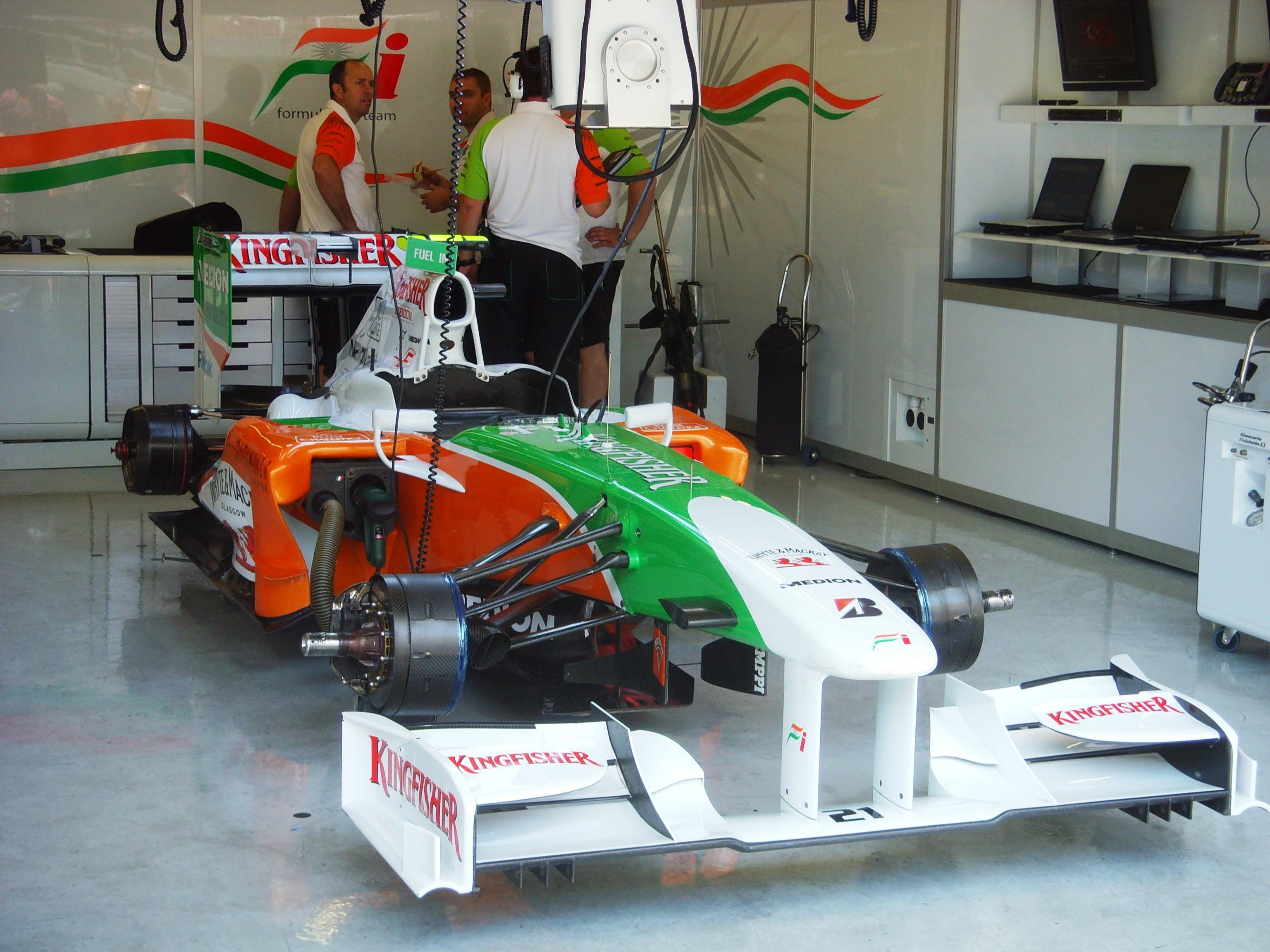 Giancarlo Fisichella's Force India VJM02 in Force India garage with tires off during practices on Friday of 2009 Turkish Grand Prix weekend.